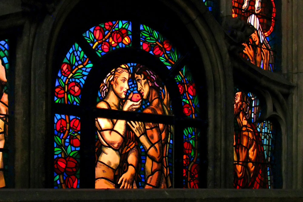 Max Svabinsky stained glass in st. Vitus cathedral